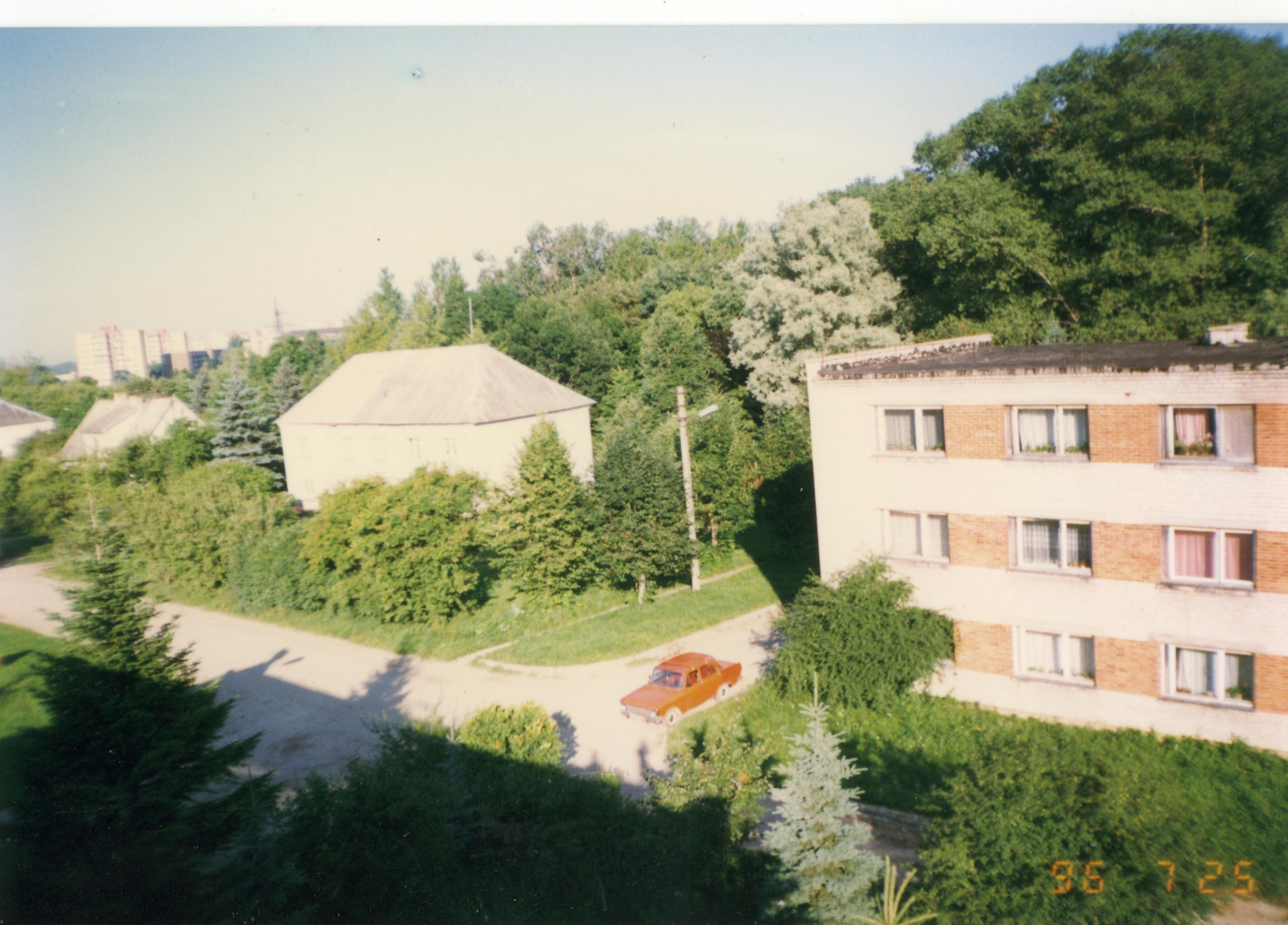 M/U gyvenvietė, Jonava